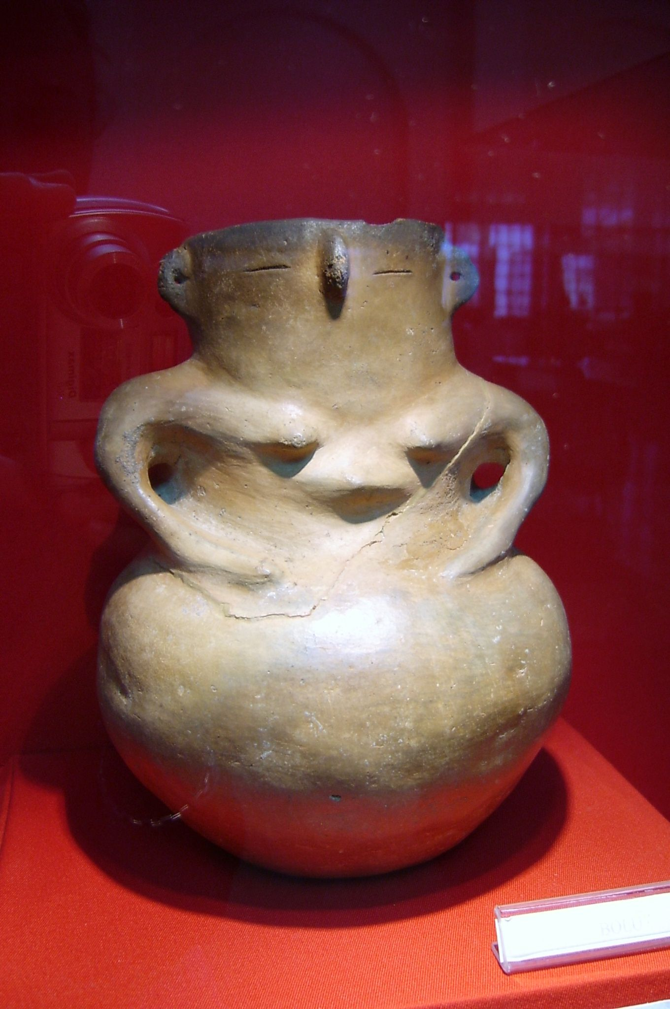 Woman-like pot from Alaca Hüyük